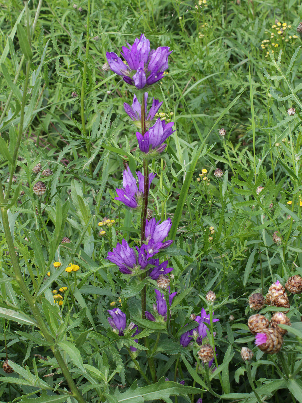 Campanulaceae, Campanula glomerata